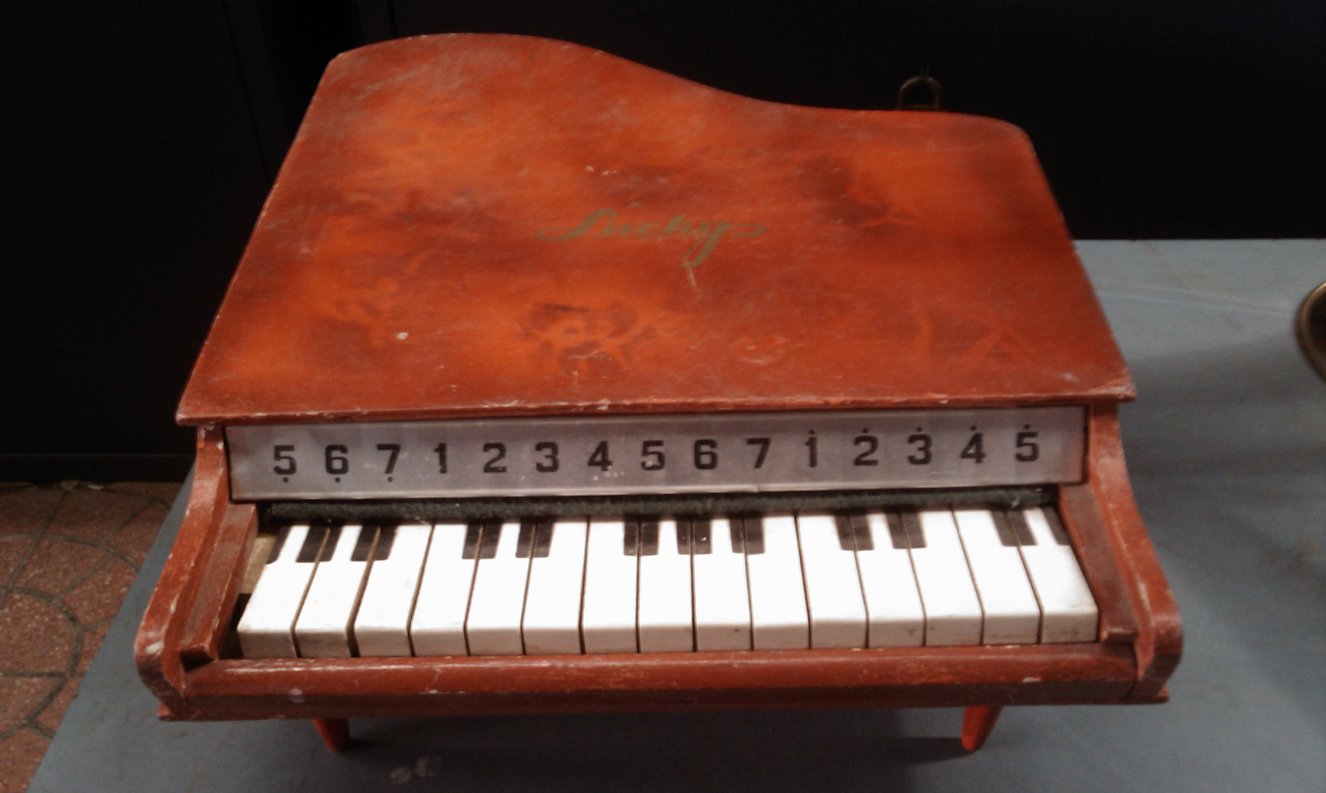 Piano for kids in a chinese market with Jianpu notation